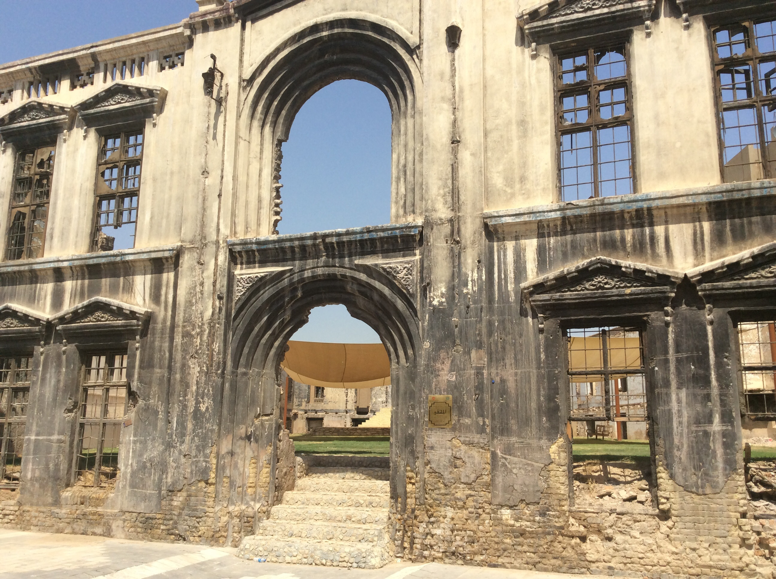 Old monument in Rasafa - Baghdad